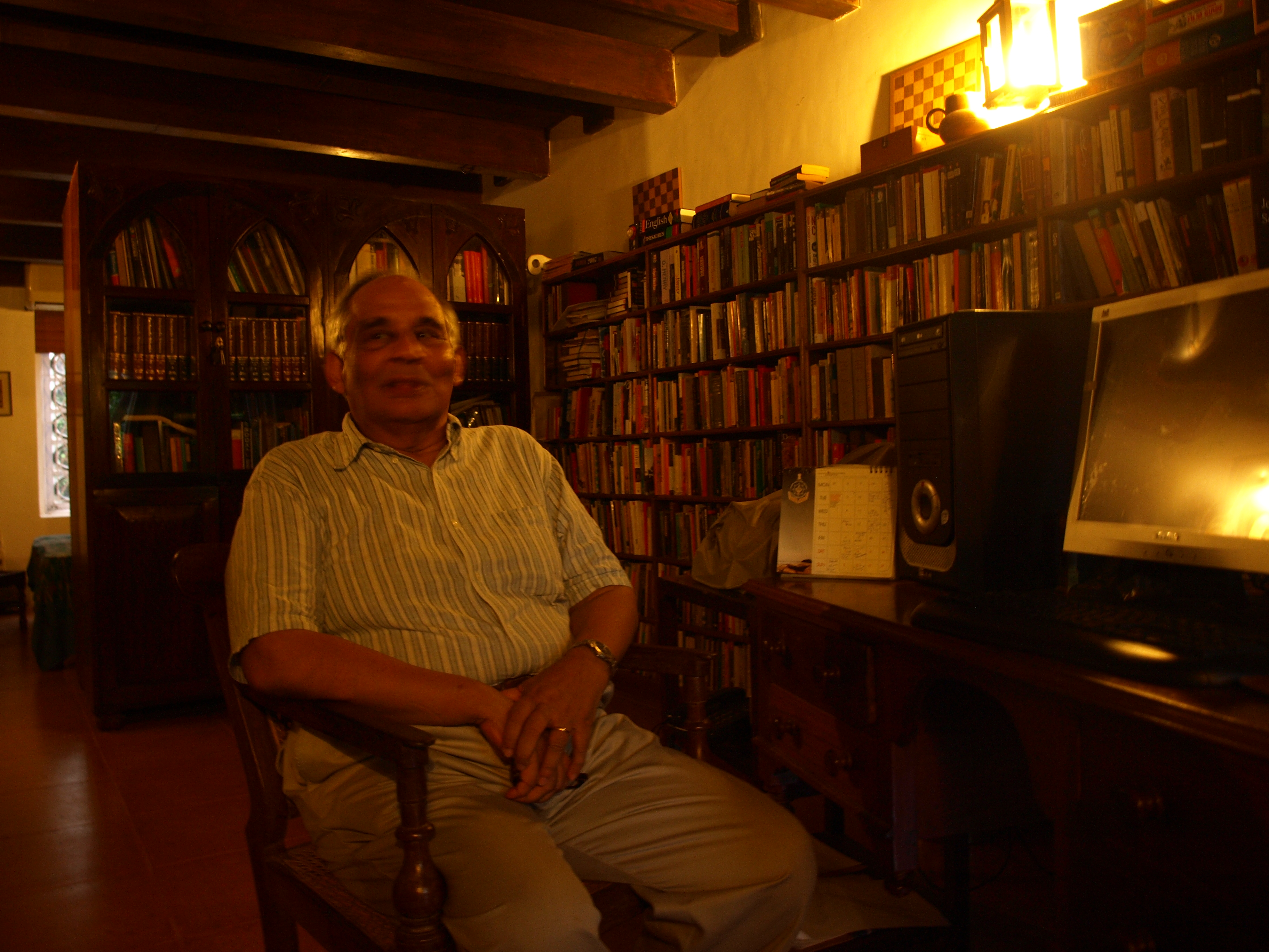 Alban Couto, former adviser to the Governor of Goa, and senior government bureaurat, at his study in Aldona. Photo by Frederick Noronha